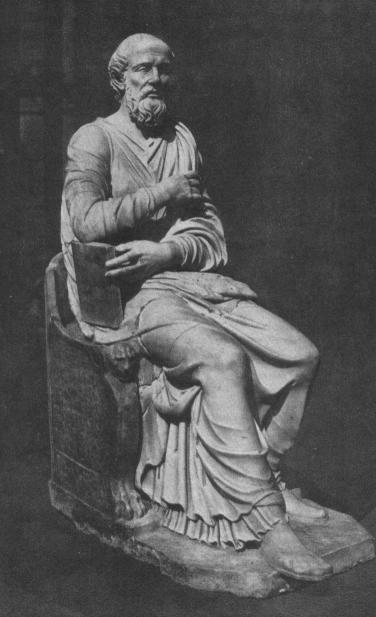 Ancient Roman sculpture, maybe of Saint Hippolytus of Rome, found in 1551 at Via Tiburtina, Rome, and now at the Vatican Library.